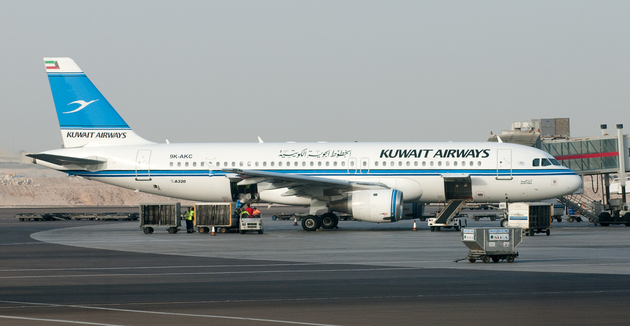 9K-AKC Airbus A320-212 of Kuwait Airways at Abu Dhabi Airport